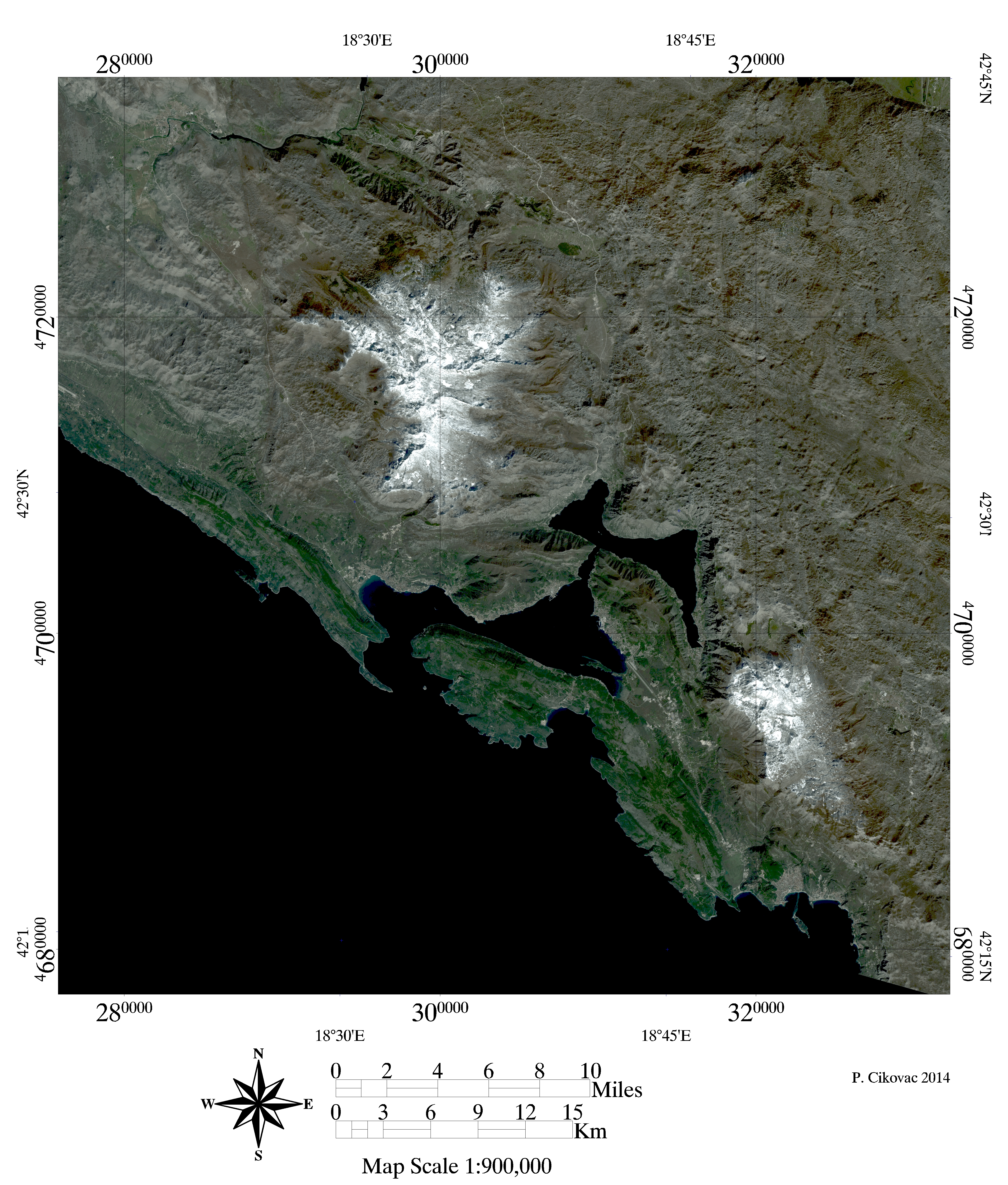 High karst zone glaciokarstic and tectonic features at the bay of Kotor and Mt Orjen